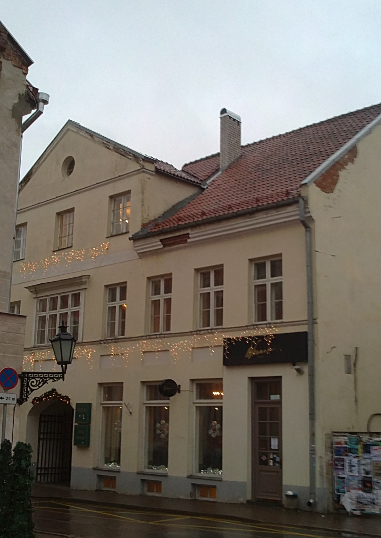 Werner´s Cafeteria, Ülikooli Street 11 in Tartu